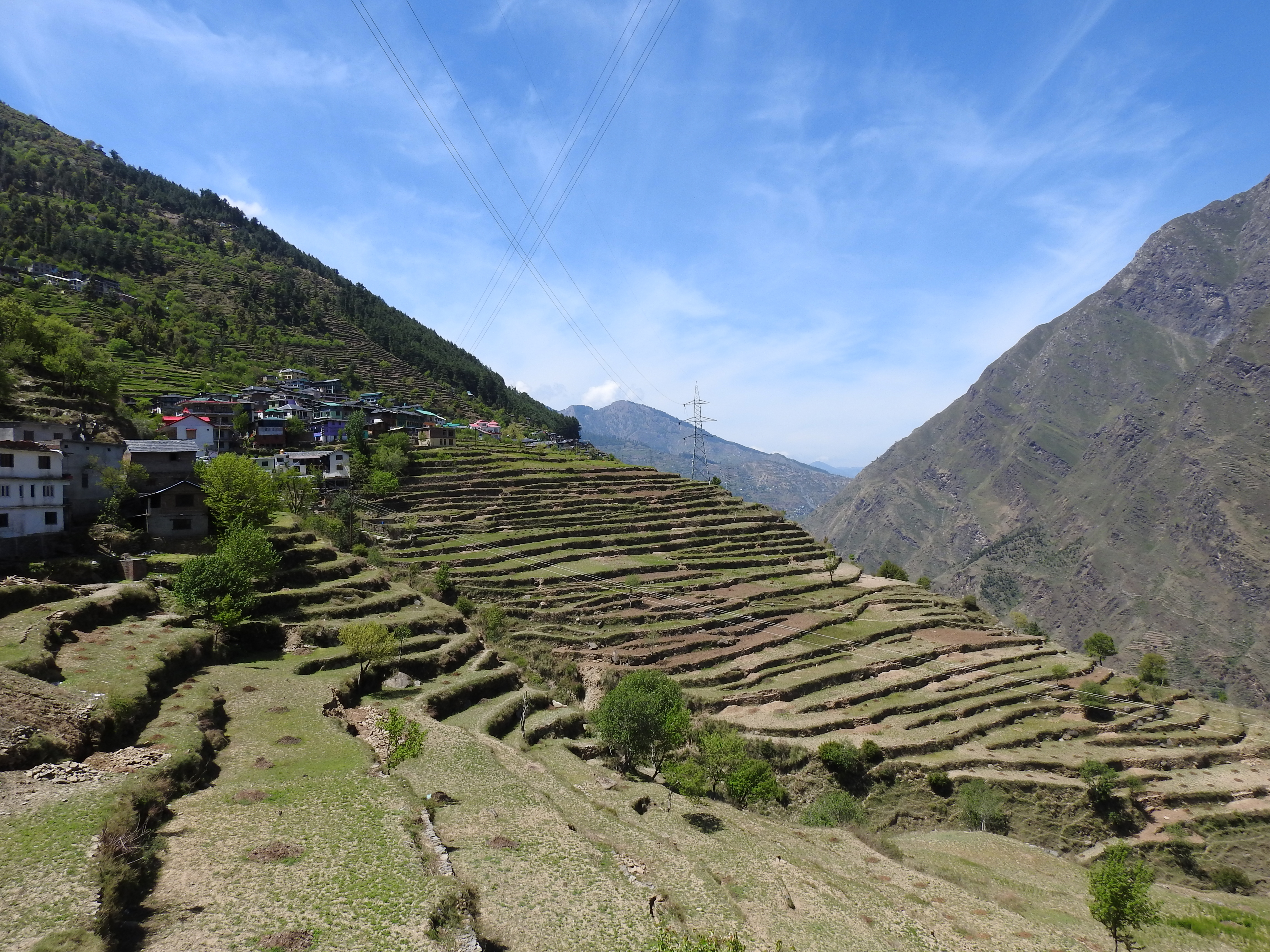 Chhatrari is a large village situated on mountain spur on the left bank of Ravi at the height of about 1793 metres above mean sea level. It is 8 KM from Luna bridge, which is 40 KM from Chamba on the vehicular road to Bharmaur. Chhatradi is considered a tirtha because of the presence of a temple of Devi Adi Shakti,popularly called Shakti Devi,or Shiva-Shakti,the female energy or powers of Shiva.The whole of temple structures in the complex are made of wood of Devdar (Cedar)